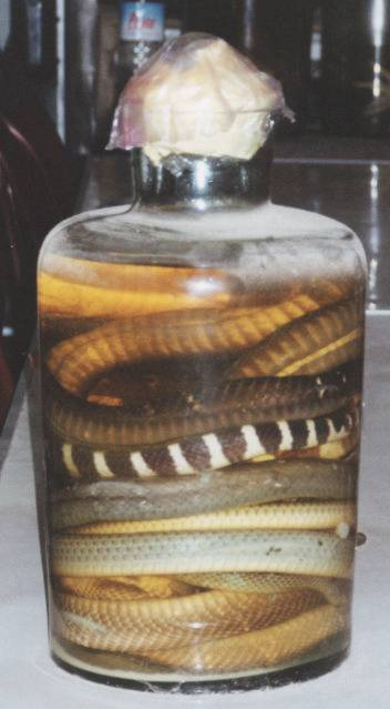 Snake wine (rượu rắn) on Cat Ba Island, Vietnam taken by Shermozle